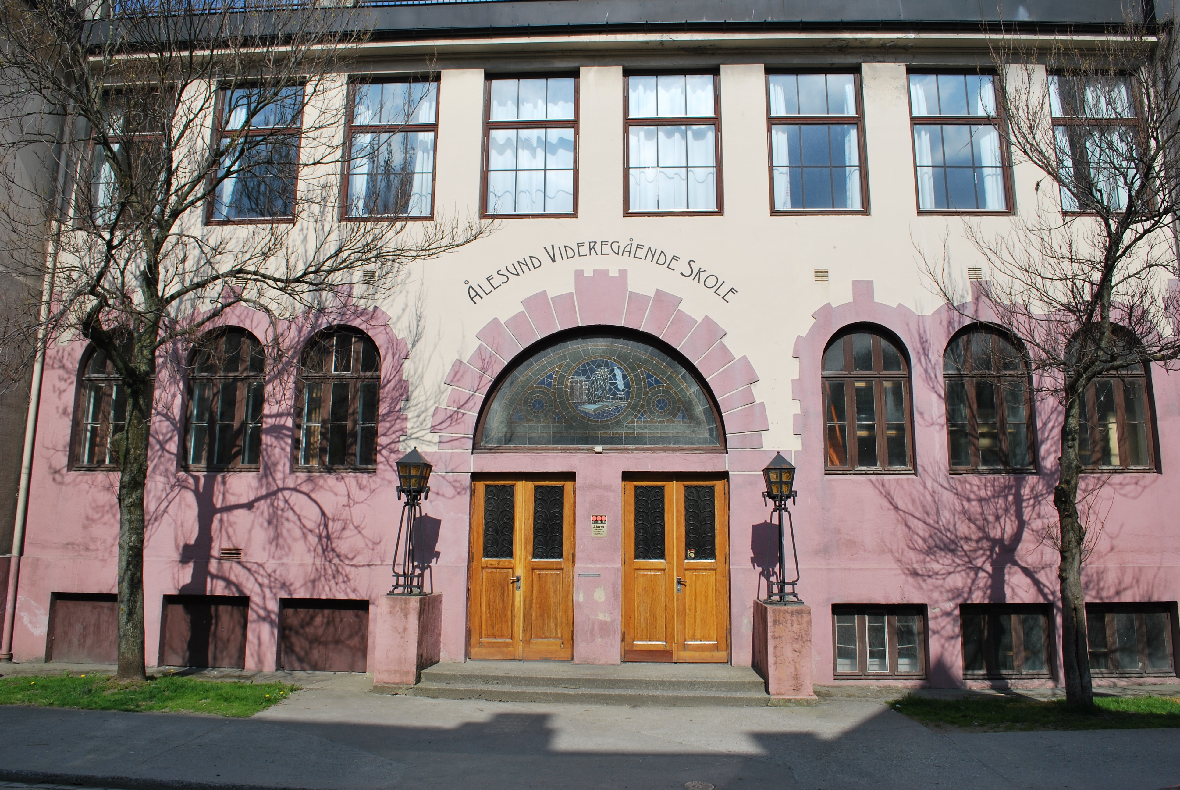 Ålesund videregaende skole, Kirkegata, Ålesund.